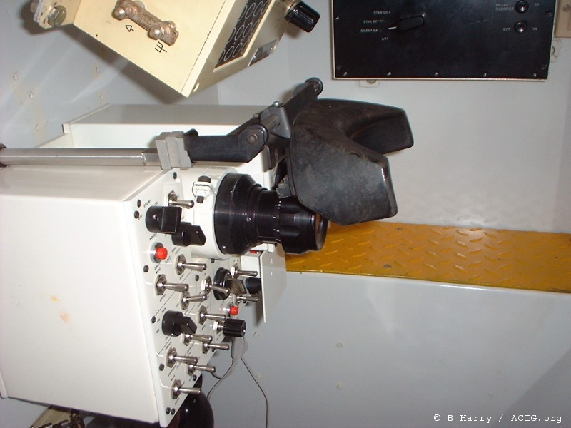 Arjun's gunnery is designed to be simplistic and compact in order to facilitate for easy transportation in a container, the software is extremely advanced. It features weapons ballistics simulation, Day/Night Thermal imaging simulation as well as a vibration unit to simulate firing and battlefield disturbances. The container consists of two compartments, one housing the gunner and another containing an instructor console with a larger screen to monitor, control, evaluate, debrief and rank the gunner.